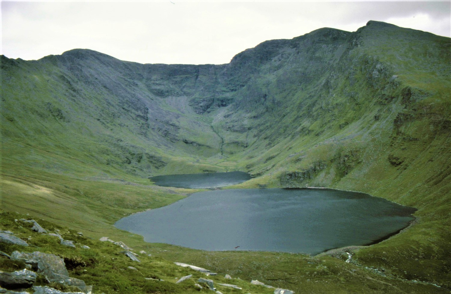 The Coomloughra Horseshoe (main summits being Caher, Carrauntoohil, and Benkeeragh) around the Coomloughra Lough, in the MacGillycuddy's Reeks, in Kerry Ireland